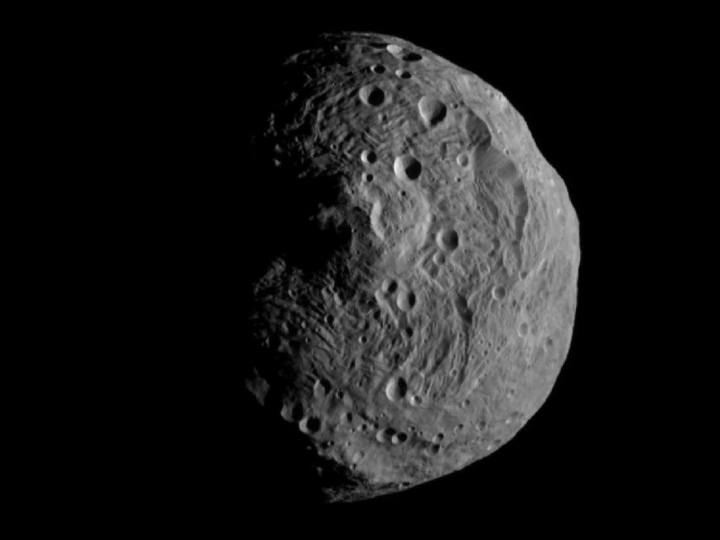 Image of asteroid 4 Vesta taken from NASA's Dawn spacecraft at a distance of 15,000 km.